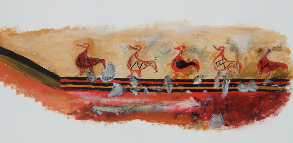 My sketch for Tomba delle anatre.